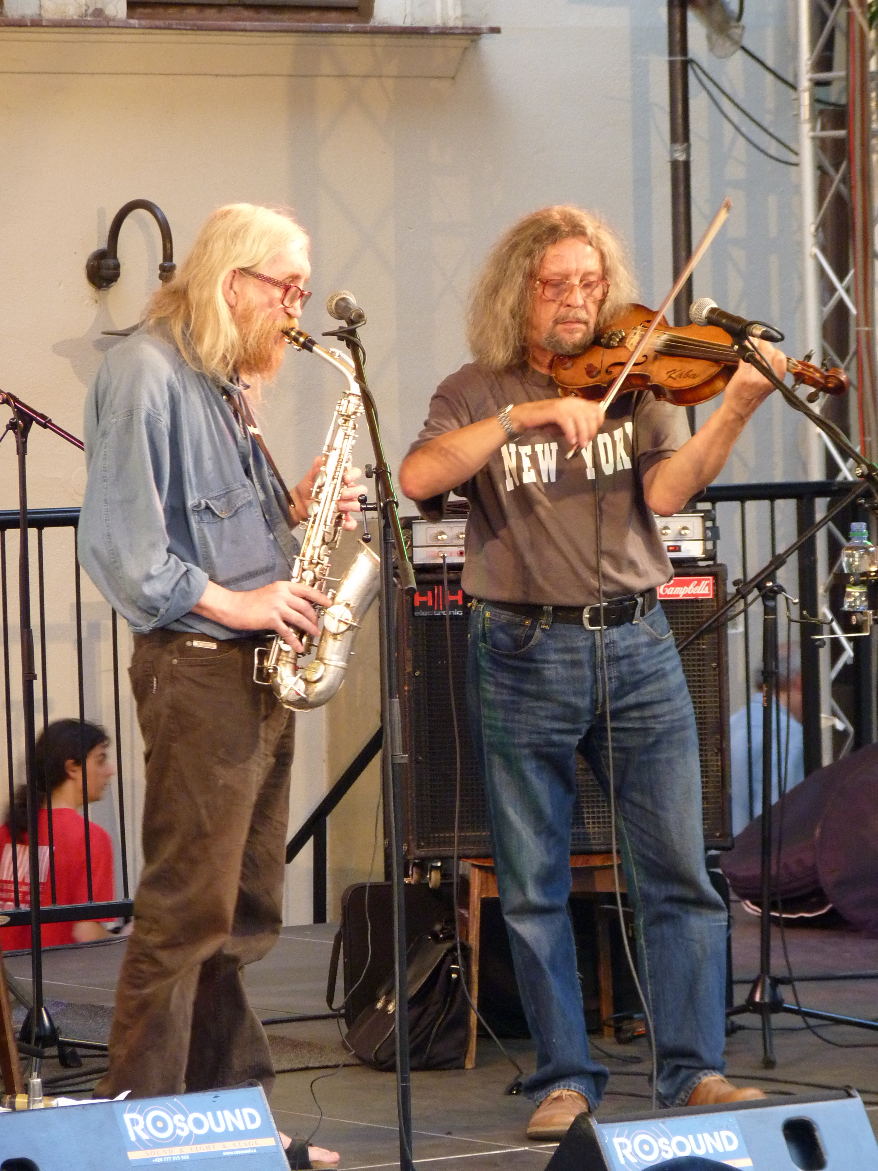 Vratislav Brabenec (on the left) and Jiří Kabeš (Czech musical group The Plastic People of the Universe. Old Town in Brno, 13th June 2010)